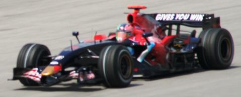 Vitantonio Liuzzi driving for Scuderia Toro Rosso at the 2007 Malaysian Grand Prix.